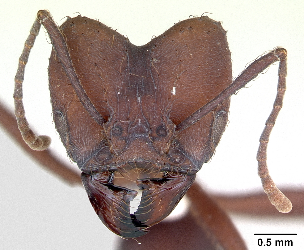 Head view of ant Acromyrmex balzani specimen casent0173790.